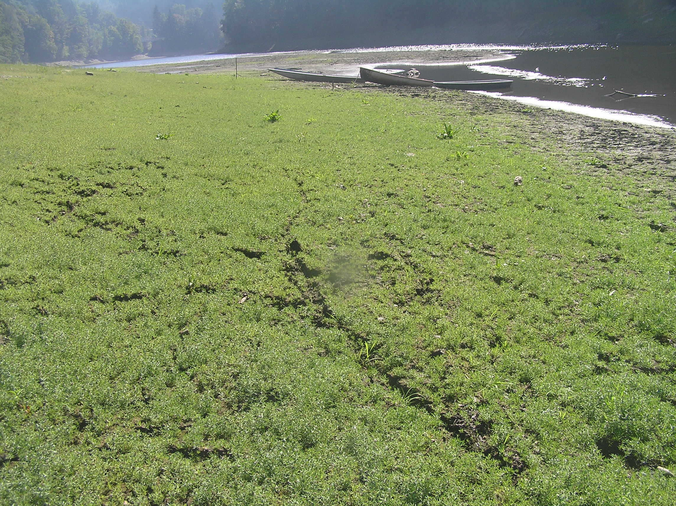 Pastviny Reservoir, Czech Republic